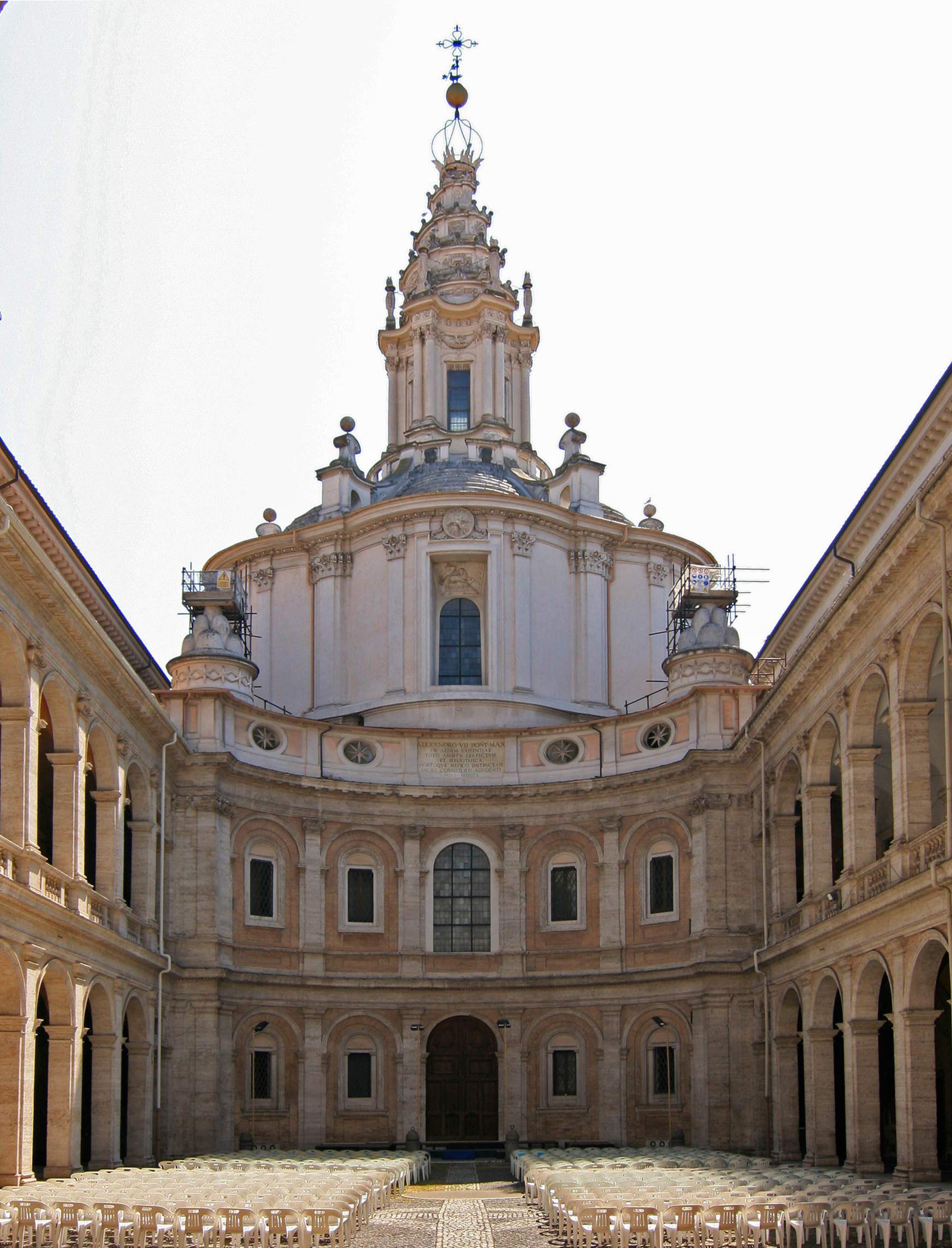 Sant'Ivo in Palazzo della Sapienza, Rome.